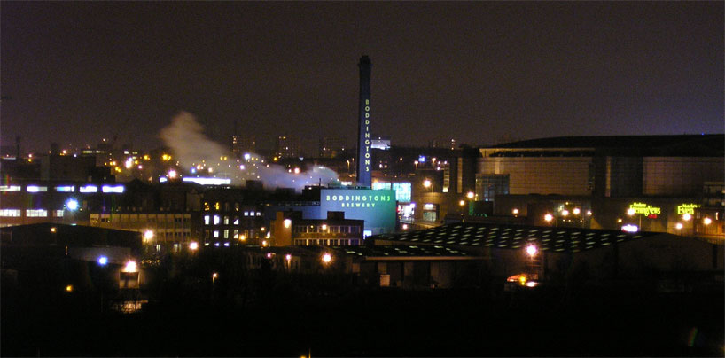 Author: Iain West